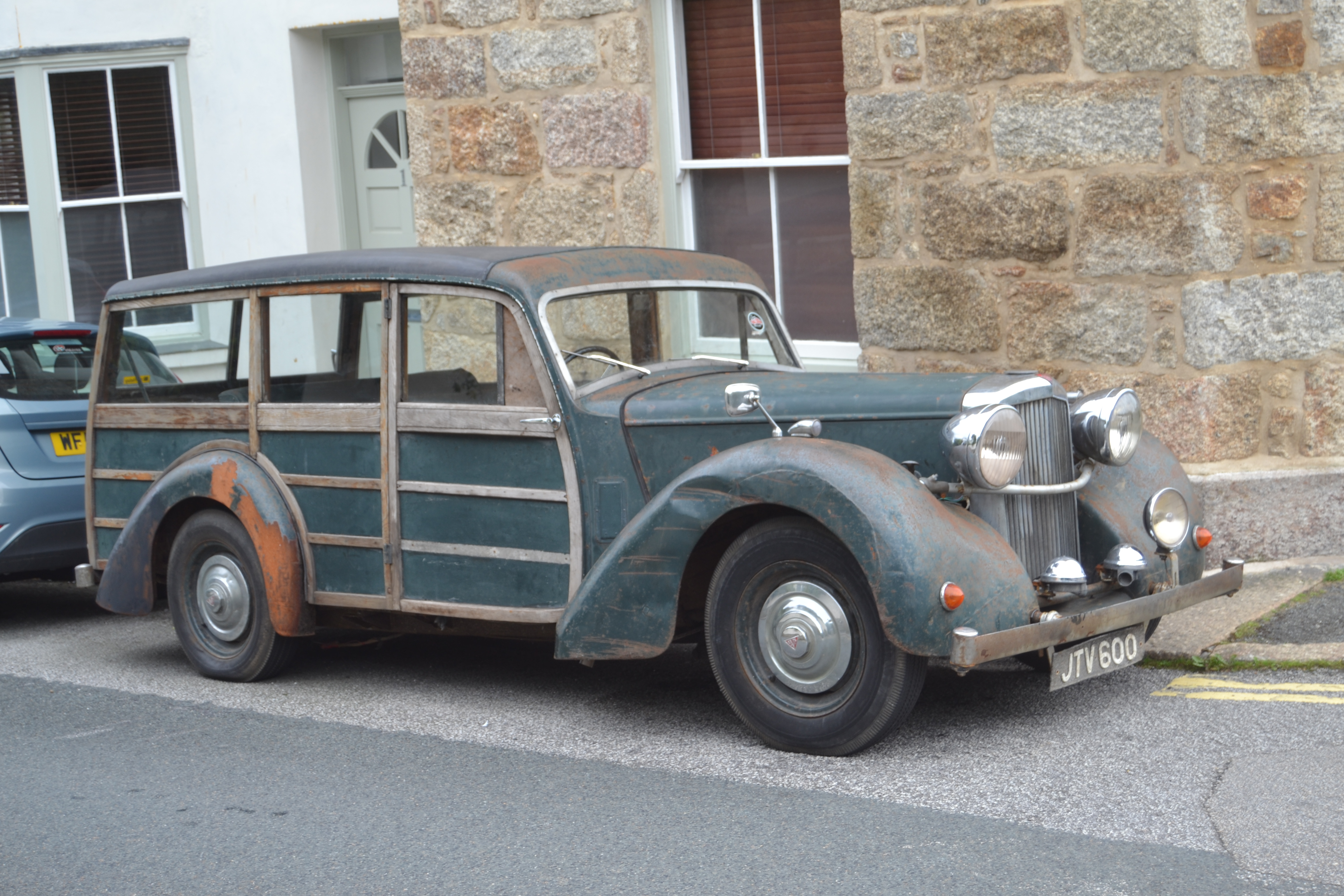 Alvis TA 14 Estate, Coachwork by Scotney. chassis 21104 left Alvis factory 28 May 1947 source